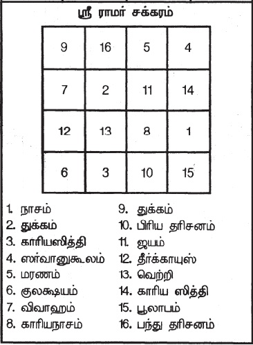 An image of Sri Rama Chakram as a magic square extracted from Vakya Panchangam published by Sringeri Sharada Peetham.